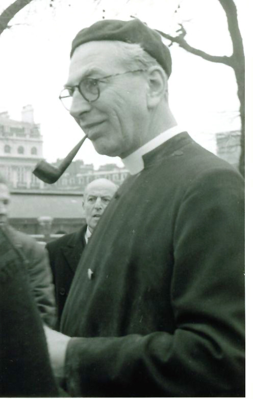 Canon John Collins at an anti-nuclear rally in Trafalgar Square, London in February 1961